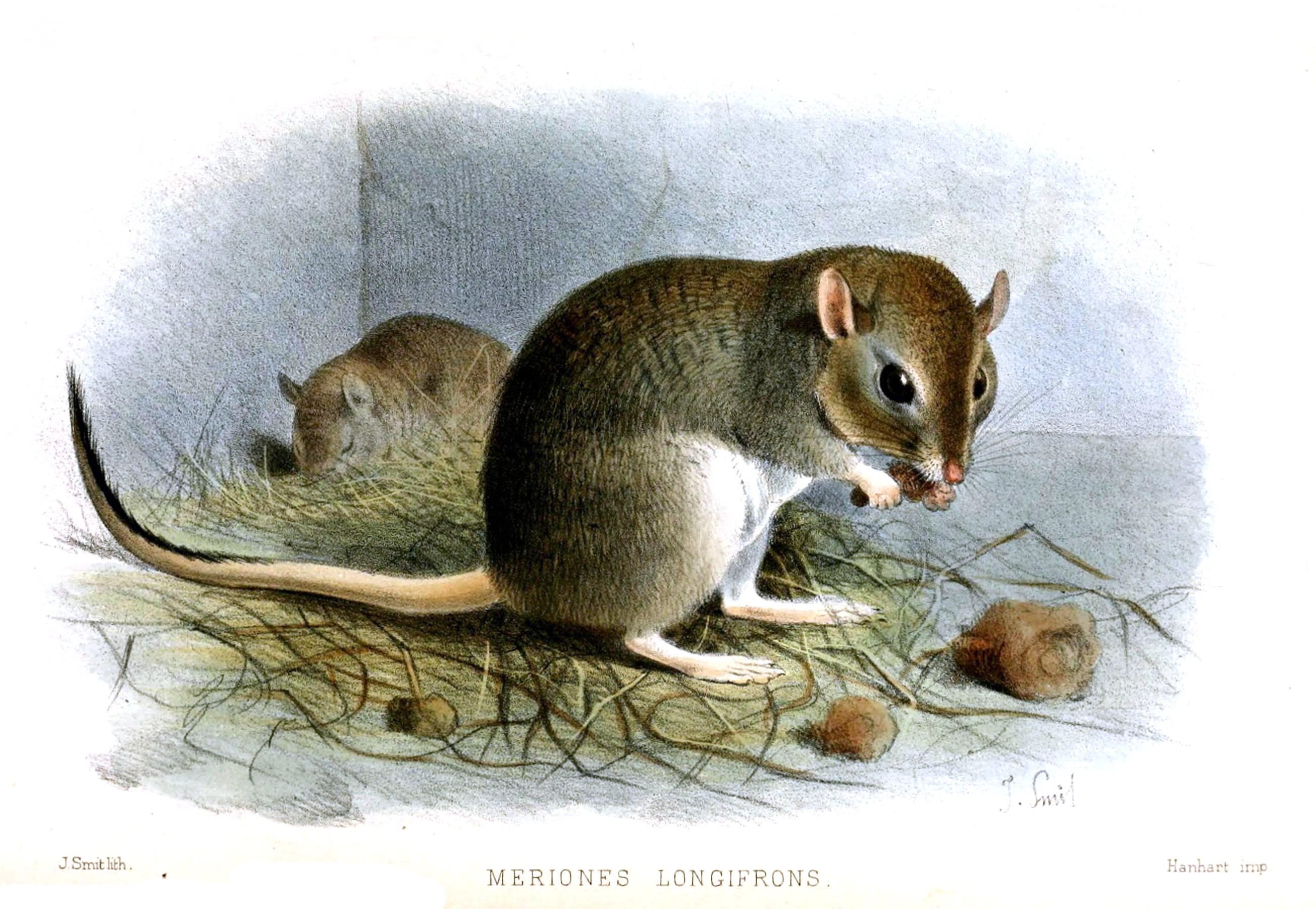 Meriones longifrons